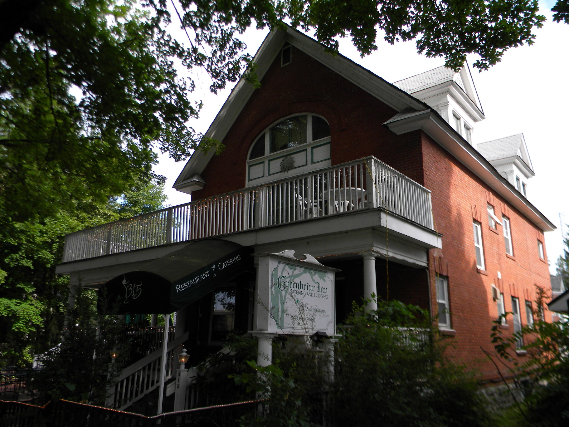 Harvey M. Davey House Currently operating as a restaurant.